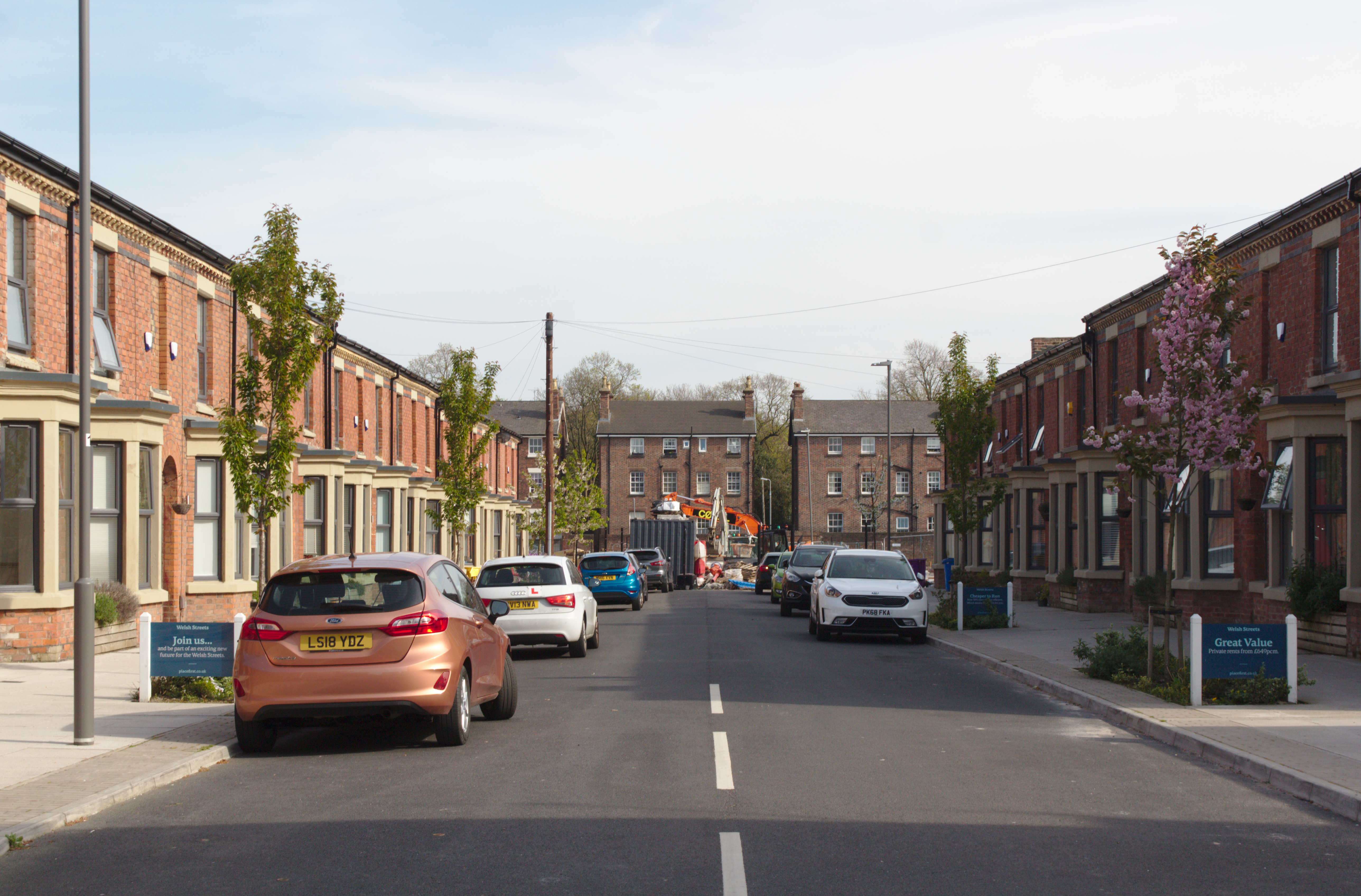 Looking southeast along Voelas Street from High Park Street.